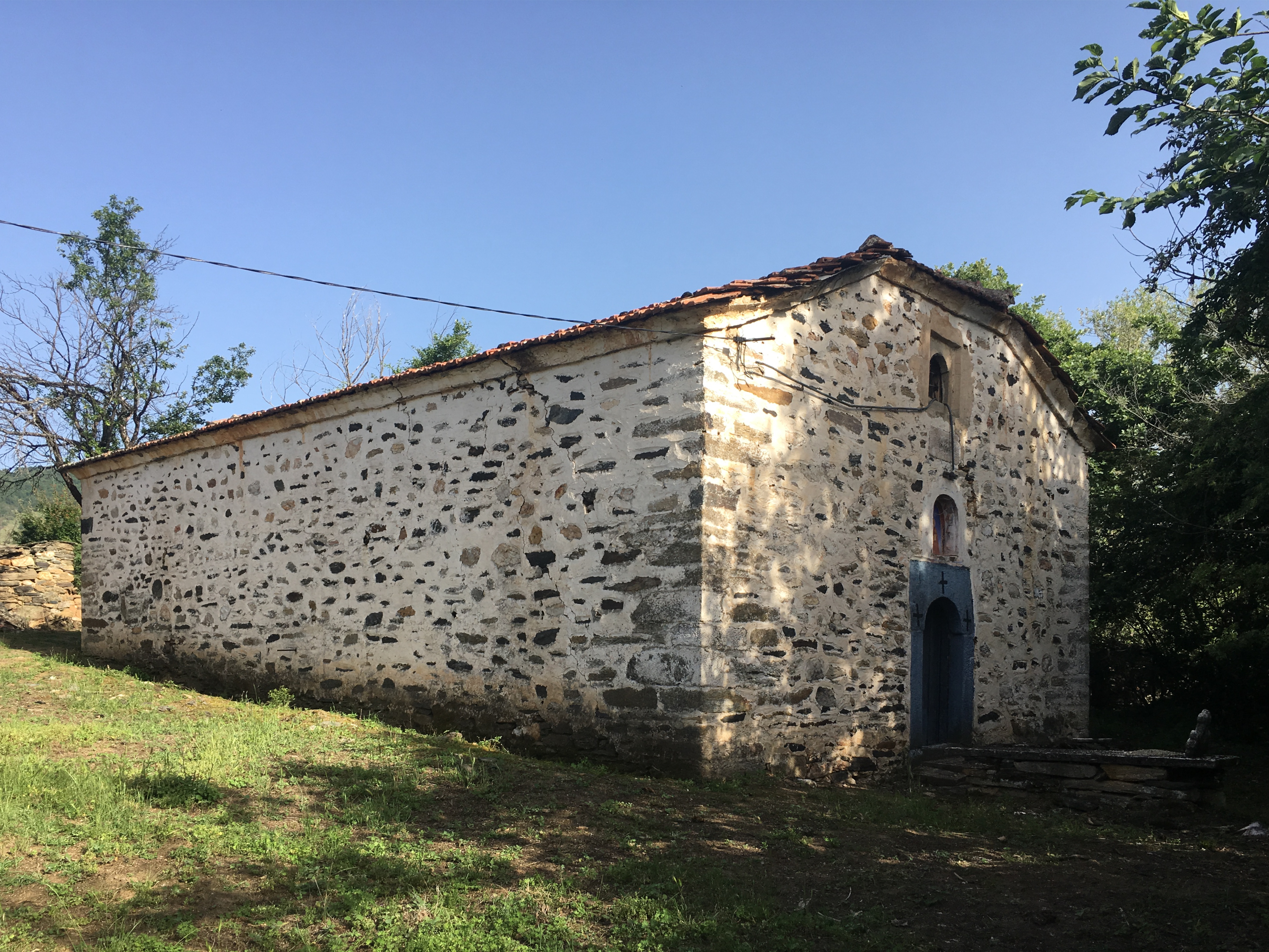 Nativity of the Theotokos Church in the village of Crničani